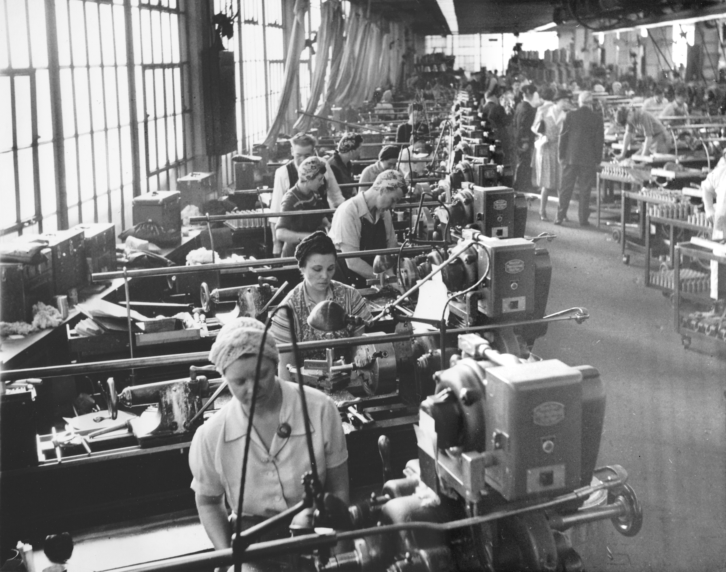 In WWII the Washington Navy Yard & Naval Gun Factory employed women in large numbers for trade and craft jobs for the first time. This image dated 1 Jan 1943 shows female lathe operator. Original caption: 1/7/1943-Washington, D.C.: A section of the Washington Navy Yard, showing a long line of lathes operated by women workers. The man in the center of the line is foreman of the group. This is one of the first pictures that the Navy has permitted to be made on the 1,400 women working at the Washington Navy Yard. BPA 2 #2357